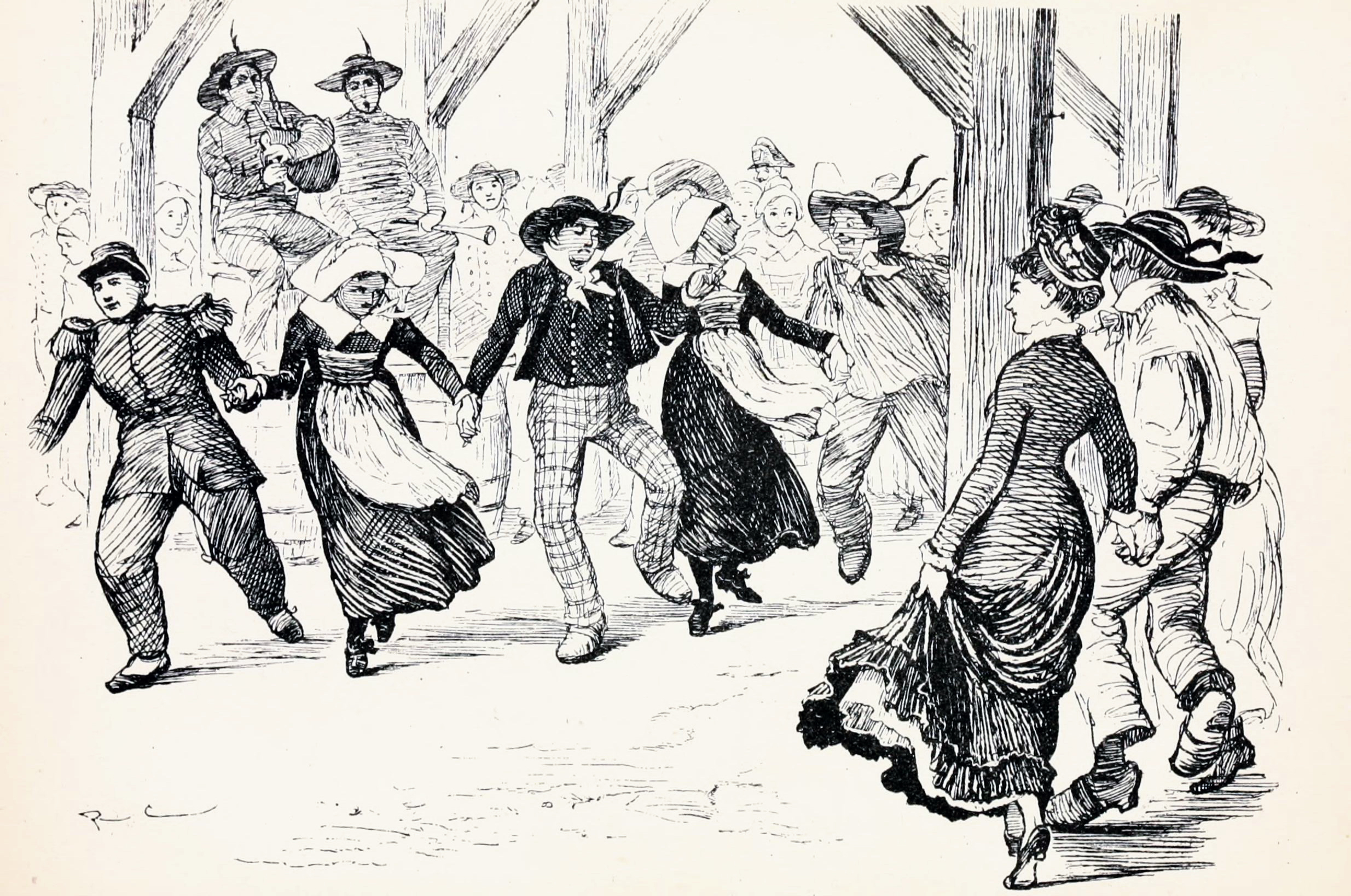 Breton Folk: an Artistic Tour in Brittany, by Henry Blackburn (1880) was one of the travel books which Randolph Caldecott illustrated. Randolph accompanied Henry Blackburn on three journeys to Brittany, and on the last of these they were joined by Randolph's wife Marian (they had got married that year). This picture from it (facing page 96) is especially interesting to us, because it is believed that the lady on the right is Randolph's wife Marian.